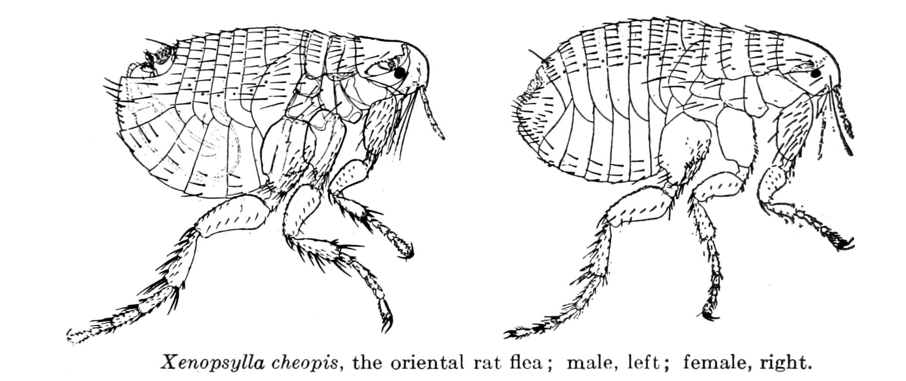 Xenopsylla cheopis The Internet Archive notes it as out of copyright